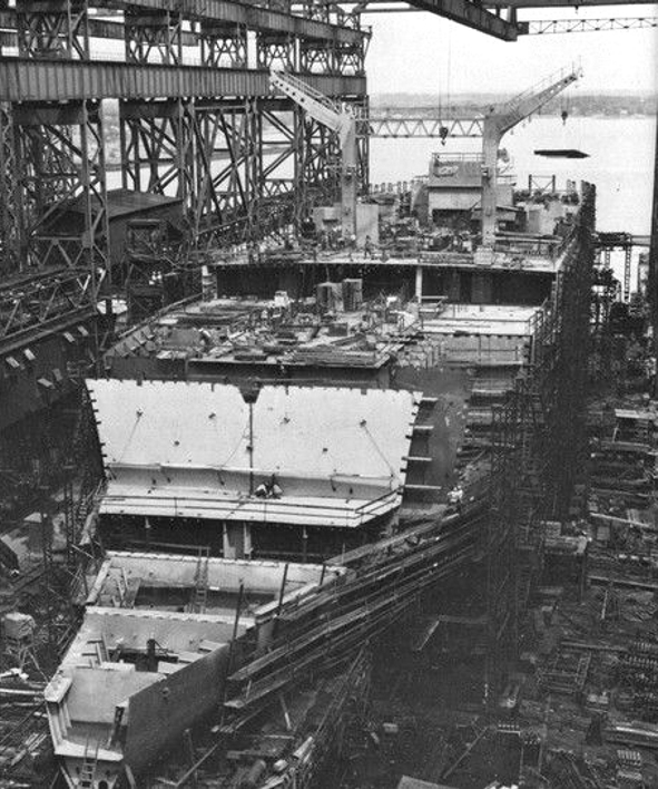 The U.S. Navy replenishment oiler USS Kalamazoo (AOR-6) under construction at the Fore River Shipyard, Quincy, Massachusetts (USA), circa in 1971.